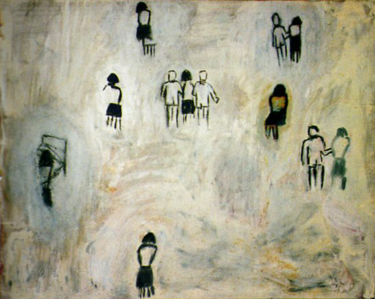 Nadie olvida nada, 1982, Acrylic on wood, 47 1/2 x 60 inches, Artist collection